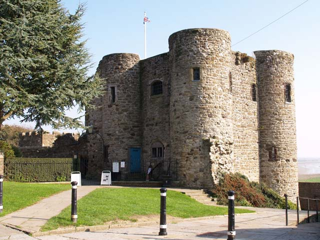 Rye, tower